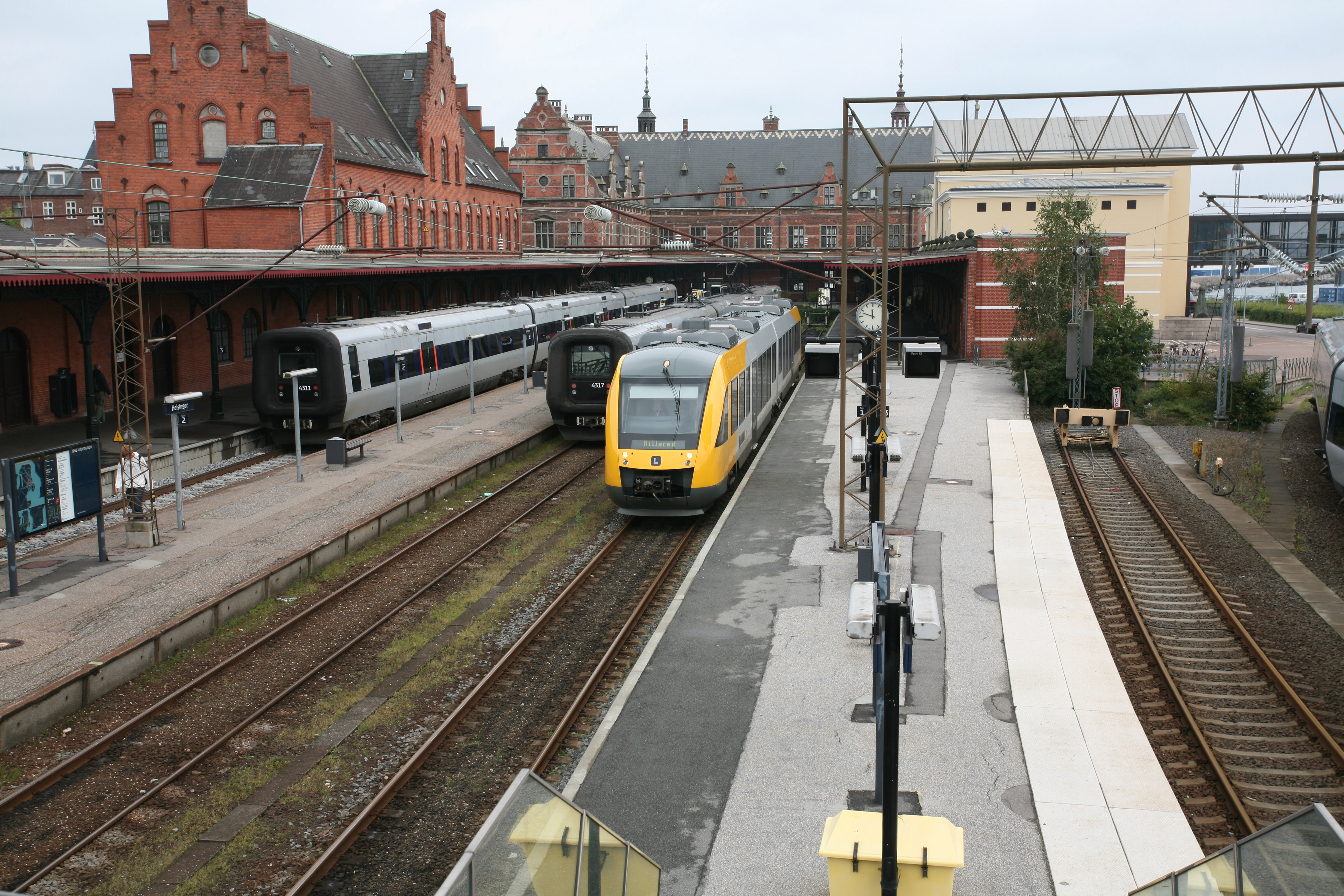 Picture of Helsingør Railway Station (Helsingør - Denmark)